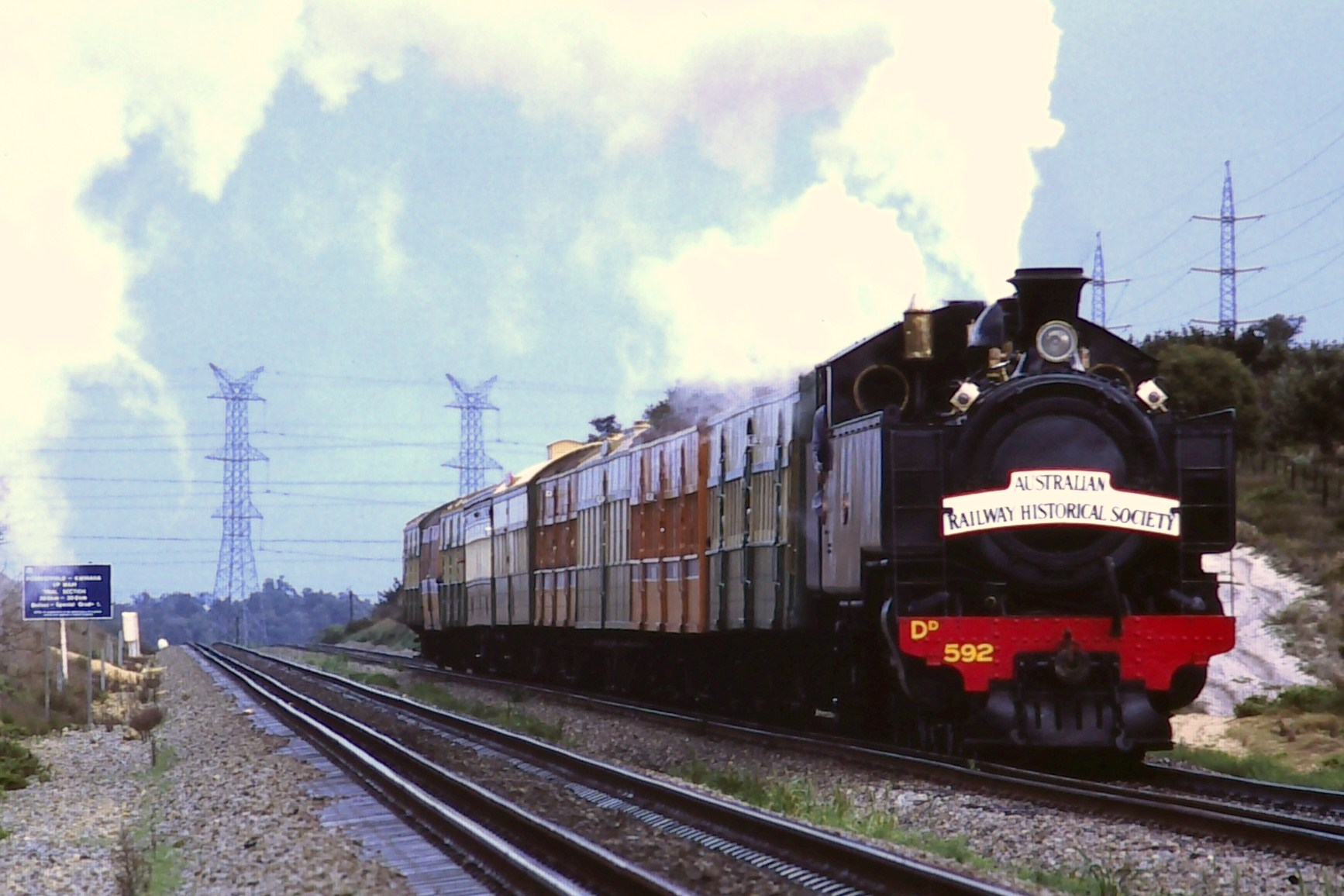 Preserved Western Australian Government Railways (WAGR) Dd class tank locomotive no Dd592 passes through Jandakot, Western Australia, with an ARHS excursion train from Perth. The plume of steam is coming from the safety valve, not the funnel.Kodachrome slide converted by Kaiser Baas Photo Maker Pro into a digital image.